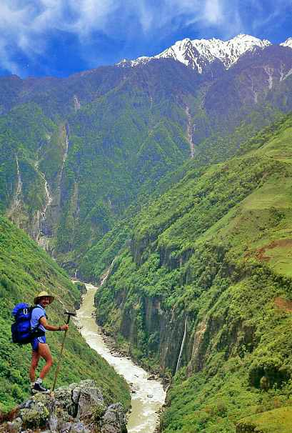 Richard D. Fisher first American to enter the Yarlung Tsang-po canyon/gorge, September 1992. Measurements taken by Fisher in 1993/1994 were recognized by the Guinness Book of World Records and published in their record book in 1996. He completed ten expeditions into this canyon/gorge between 1992 & 2000. His work documents all three sections of the Tsang-po gorge, Upper, Middle & Lower of what is referred to as the Great Bend. He also rafted the Upper Gorge in 1994 to record the first descent which validated the fact that only short sections are applicable for boating including kayaking and only at extreme low water.